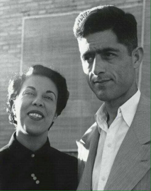 Simin Daneshvar and Jalal Ale-Ahmad